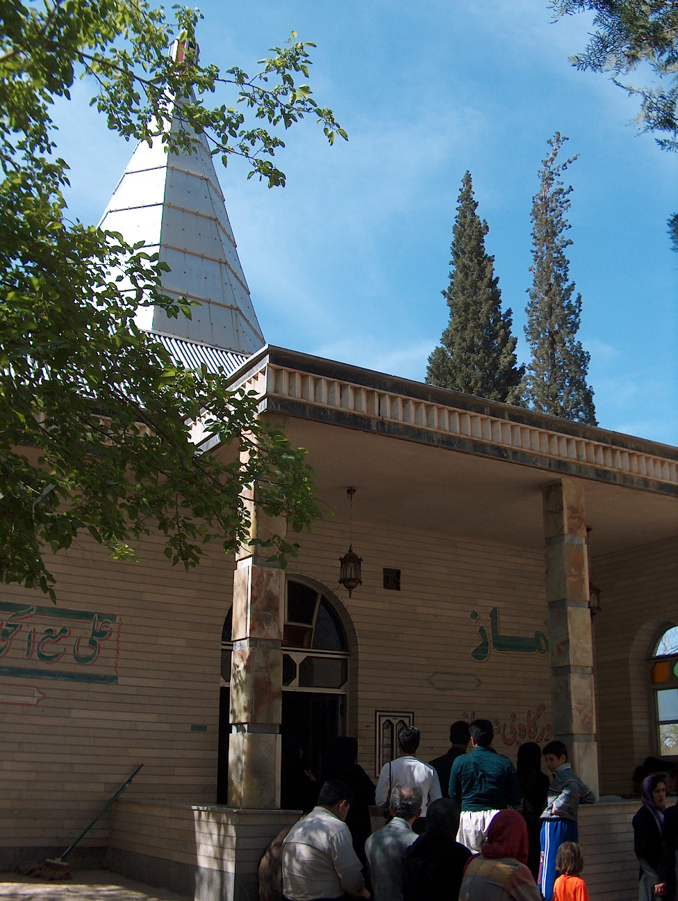 Holy tomb of Dawoud is one of sacred shrines of Yarsan(Ahl-i Haq) religion.